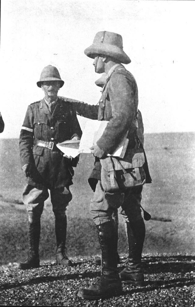 General Cobbe [General Cobbe and other British officers], Samarra - Iraq.